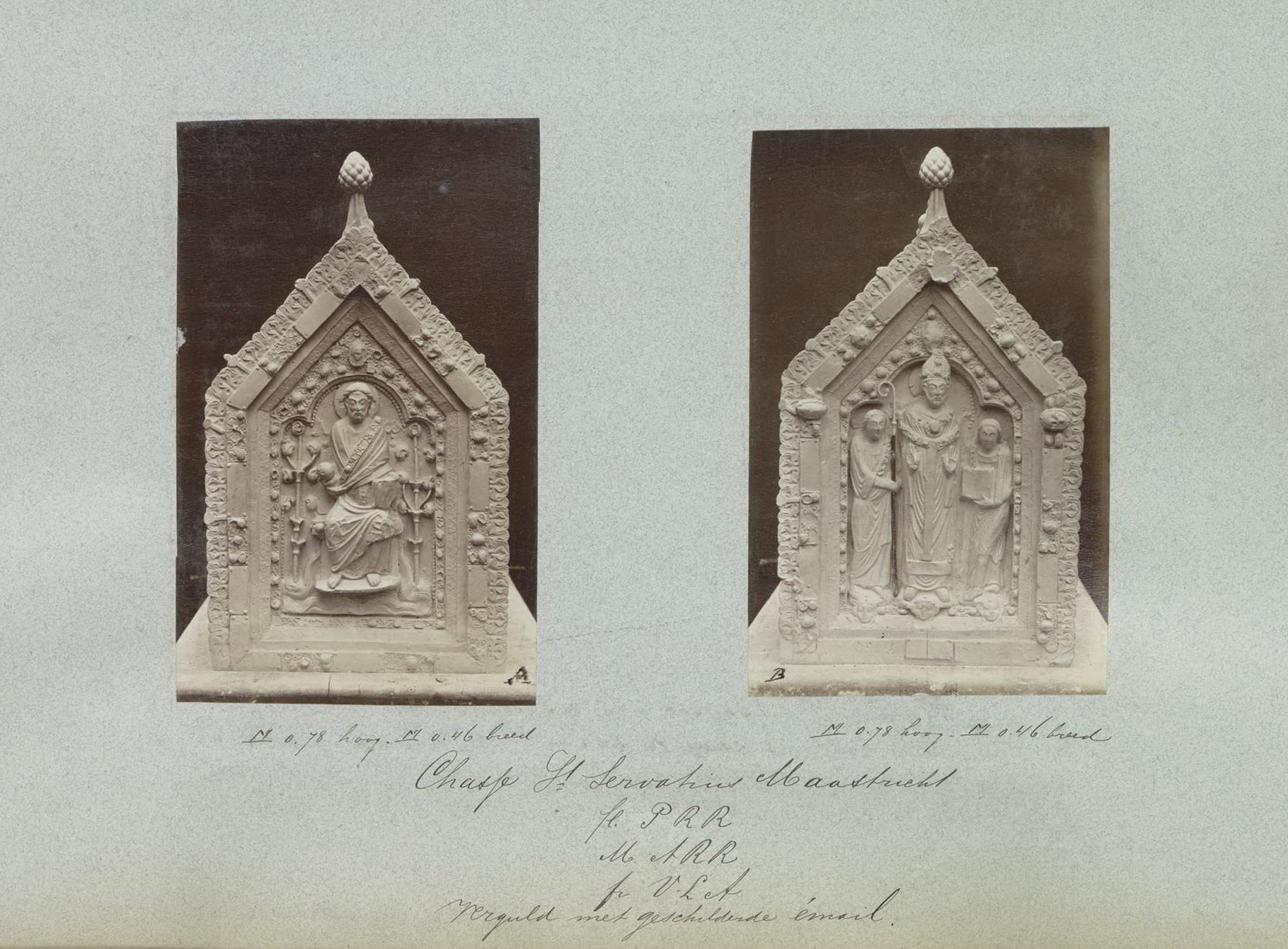 Two photographs of front and back of a plaster cast in the Rijksmuseum of the so-called "Noodkist", the 12th-century reliquary chest of Saint Servatius in Maastricht, Netherlands. The cast is probably lost. Collection: Rijksmuseum Amsterdam, ref. nr. BI-B0699-113-2.